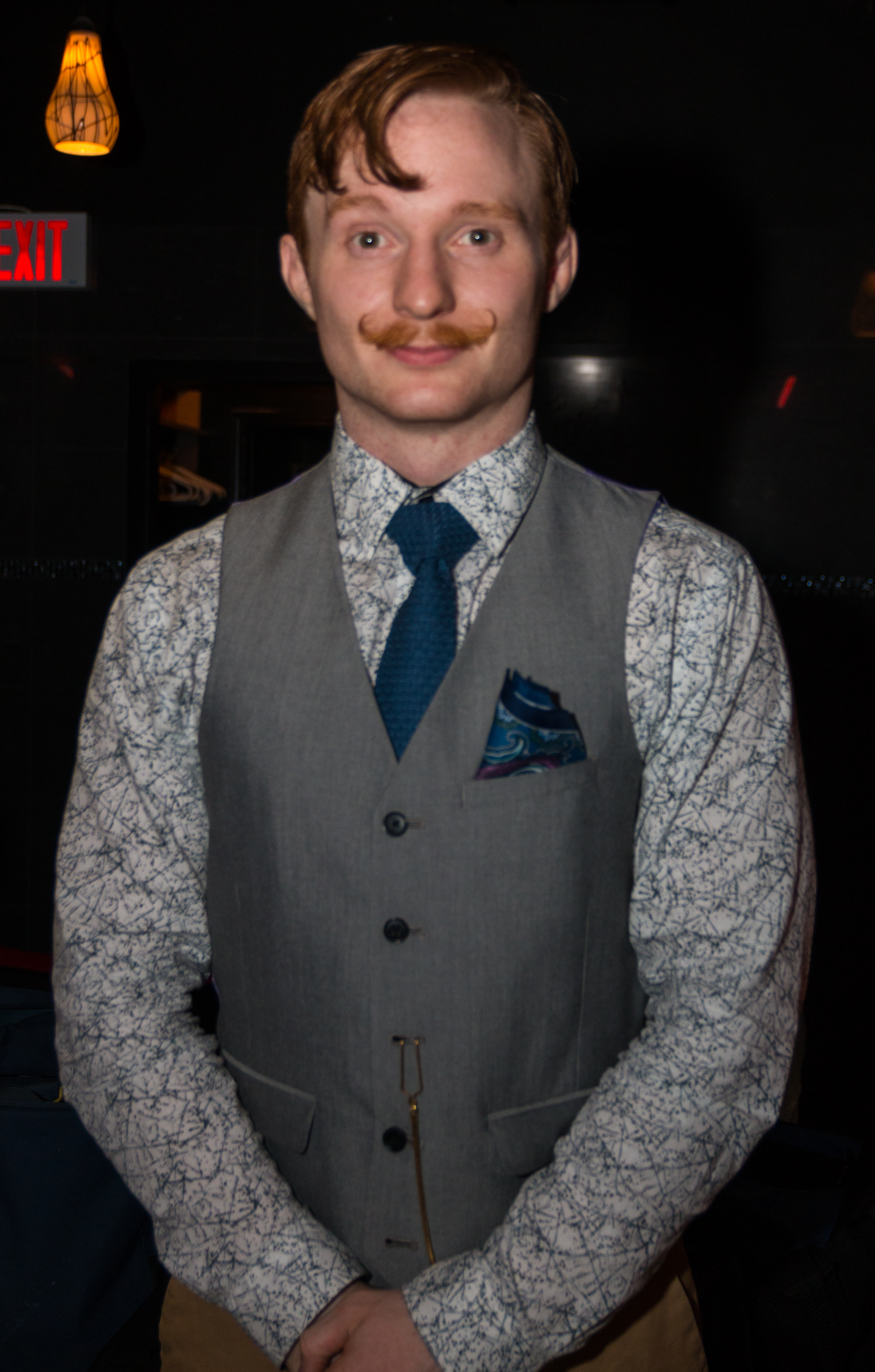 Independent wrestler Jack Gallagher at Smash Wrestling's Smash Vs Progress: Uncensored show in Oshawa, ON